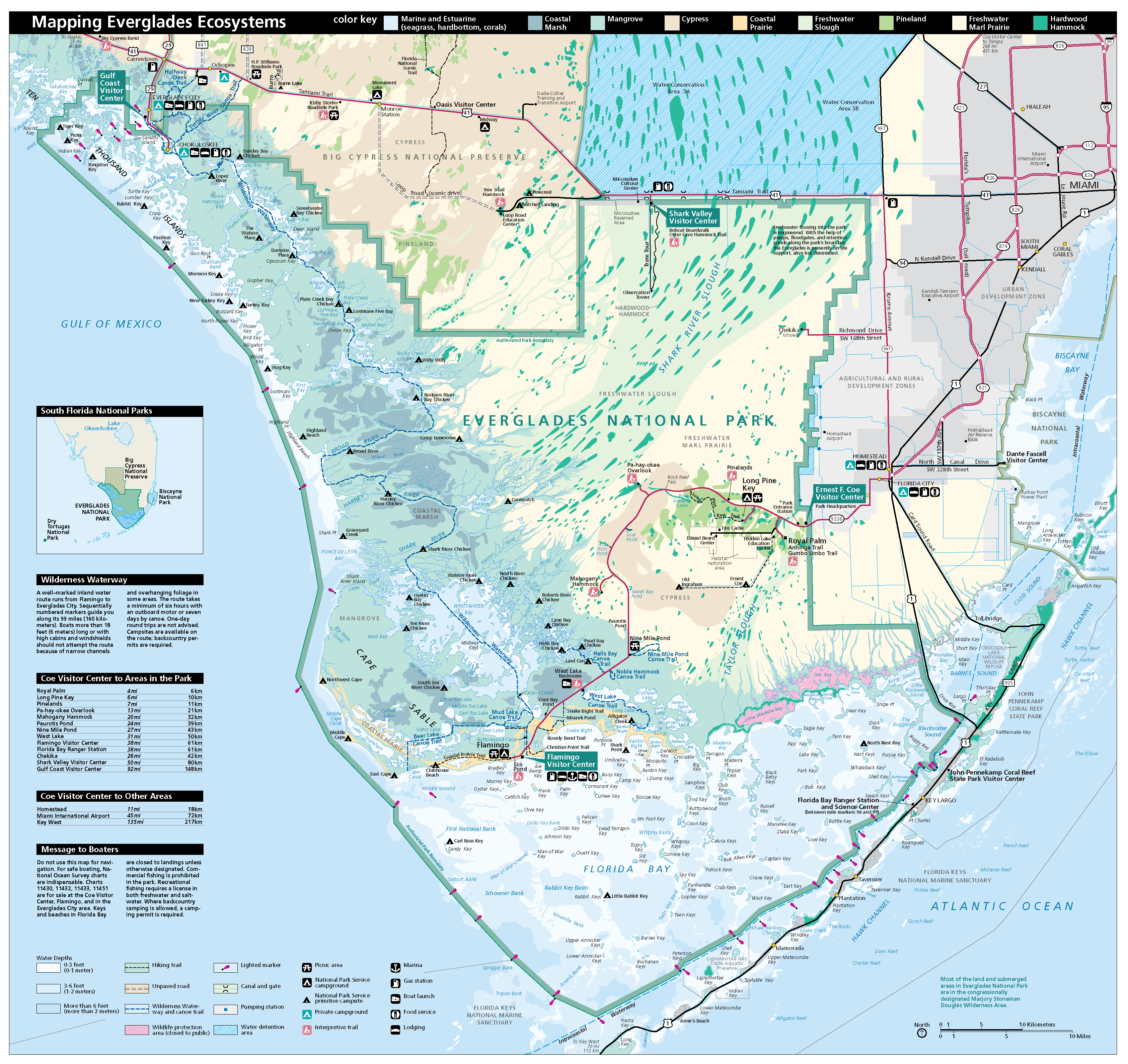 Official National Park Service map of Everglades National Park, Florida. Converted from PDF using Adobe Acrobat 7.0 Professional. Original file name: EVERmap1.pdf